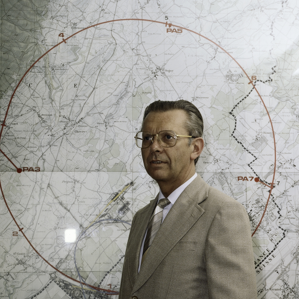 Herwig Schopper came to CERN in the early 1970s to head the Nuclear Physics Division. Then, after chairing the directorate of the German nuclear research centre DESY for several years, he returned to CERN in 1981, where he was Director-General during the approval and construction of the Large Electron Positron collider.